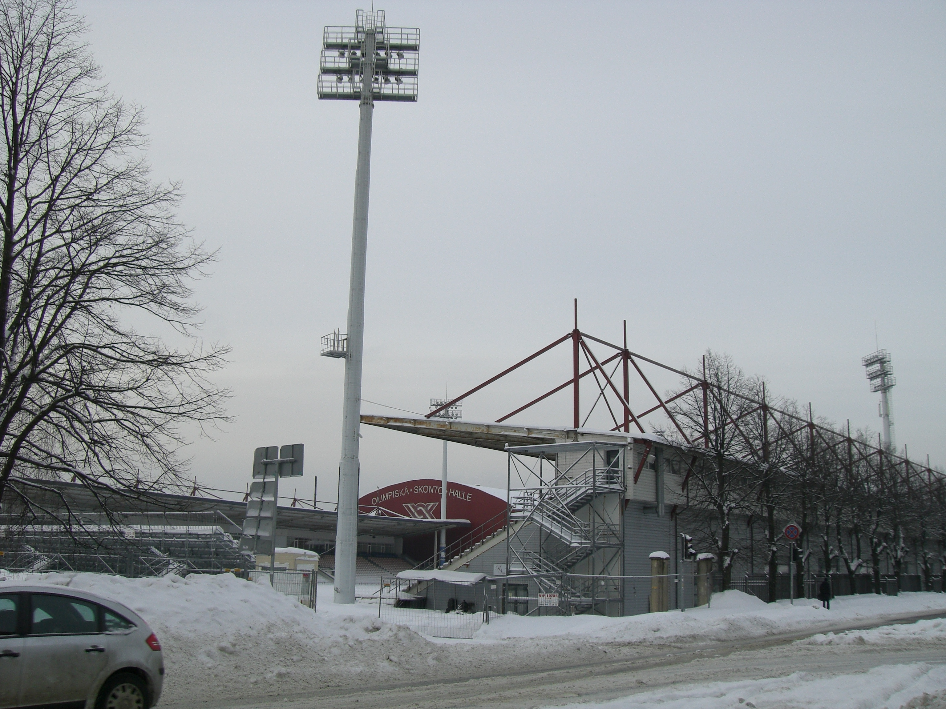 View from outside of the Skonto Stadium in Riga, Latvia.